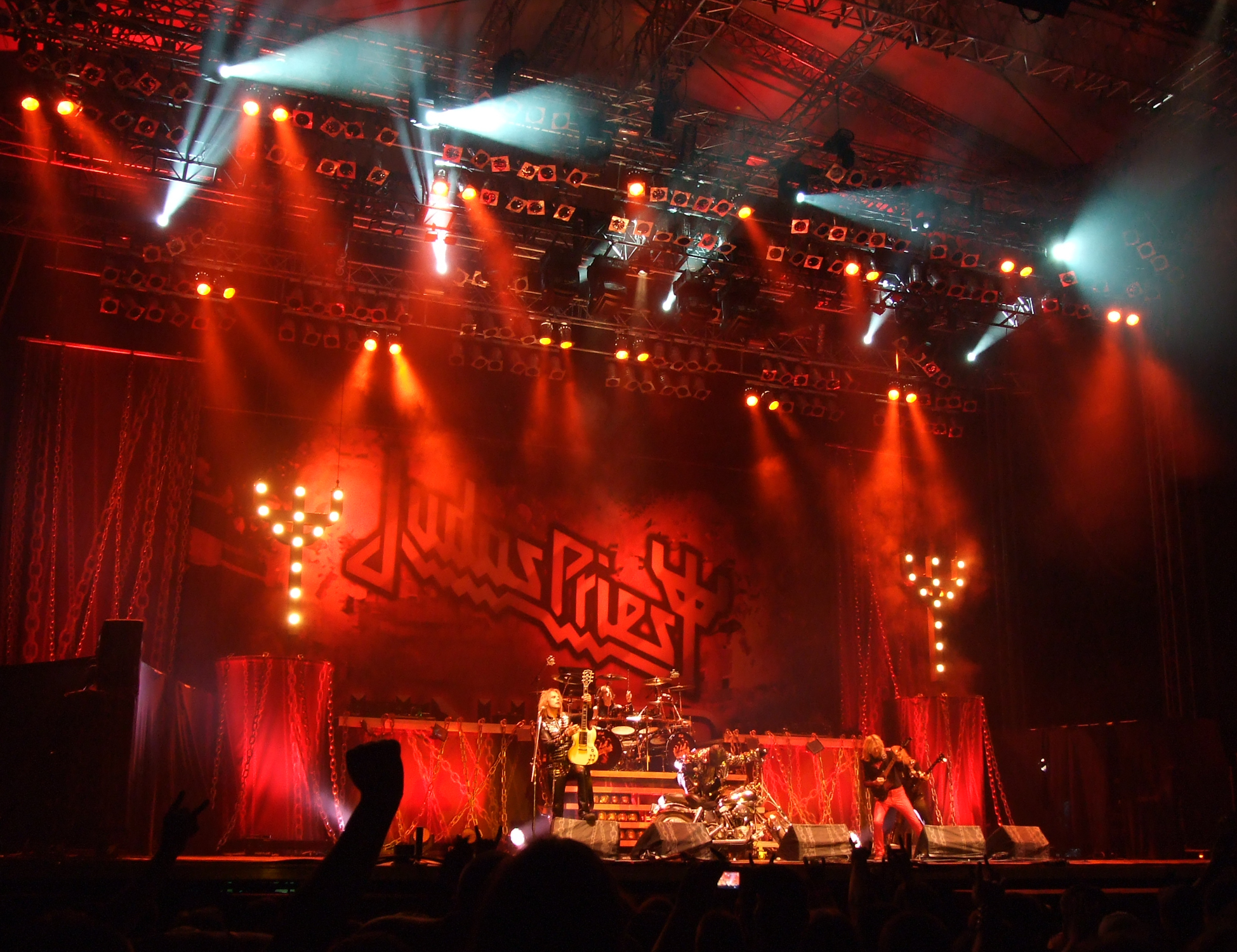 The British heavy metal band Judas Priest performing at Sofia Rocks Fest 2011, Bulgaria.